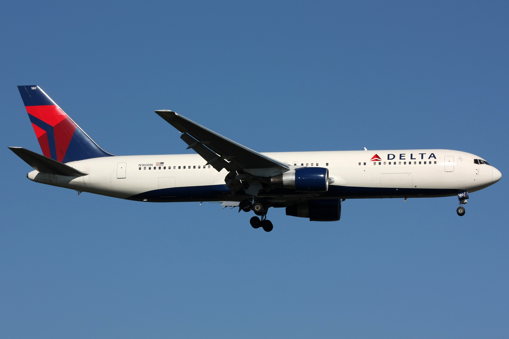 Delta Airline Boeing 767-300 N180DN is landing at Frankfurt Int'l Airport